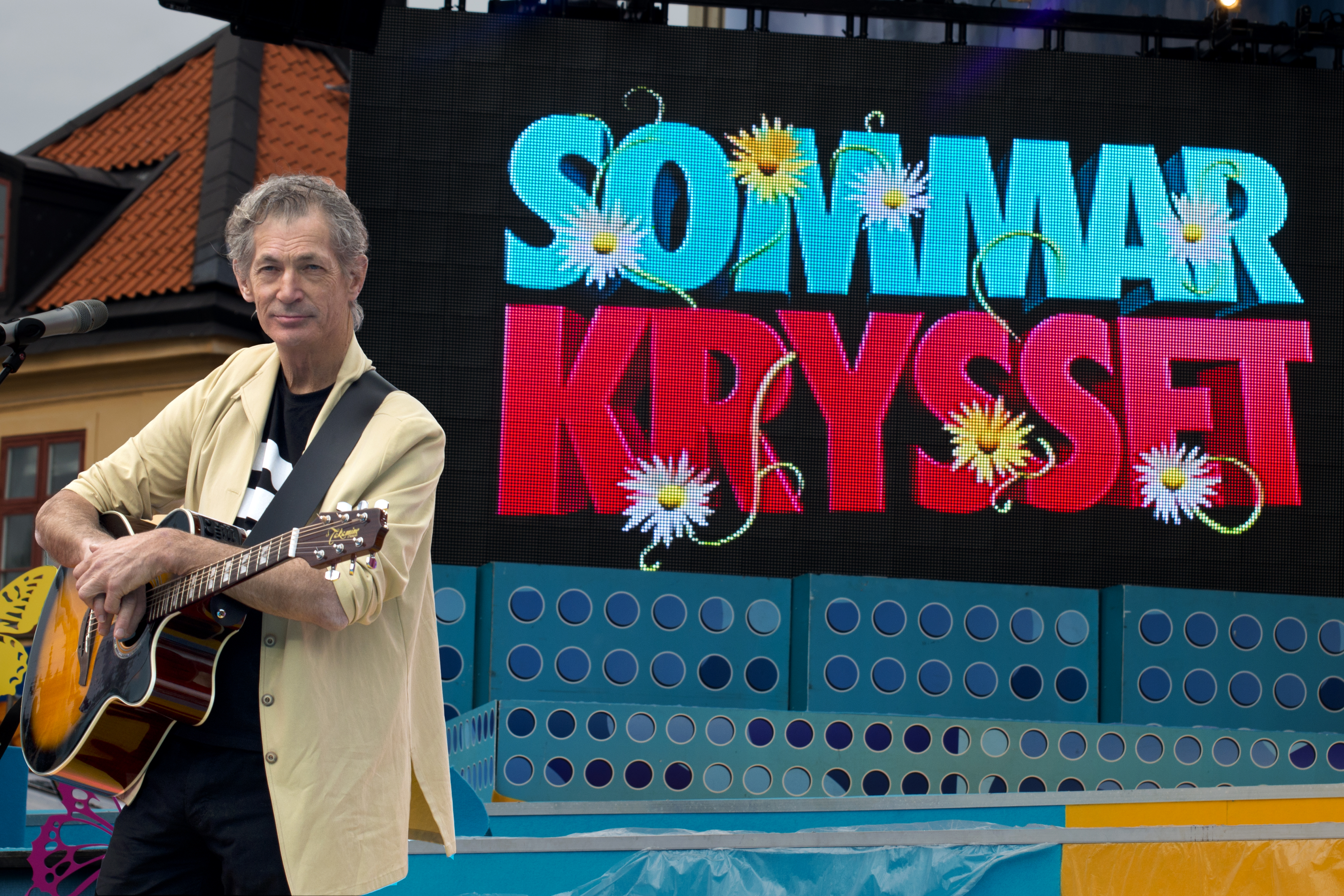 Doug Seegers visit Sommarkrysset in Stockholm at Gröna Lund